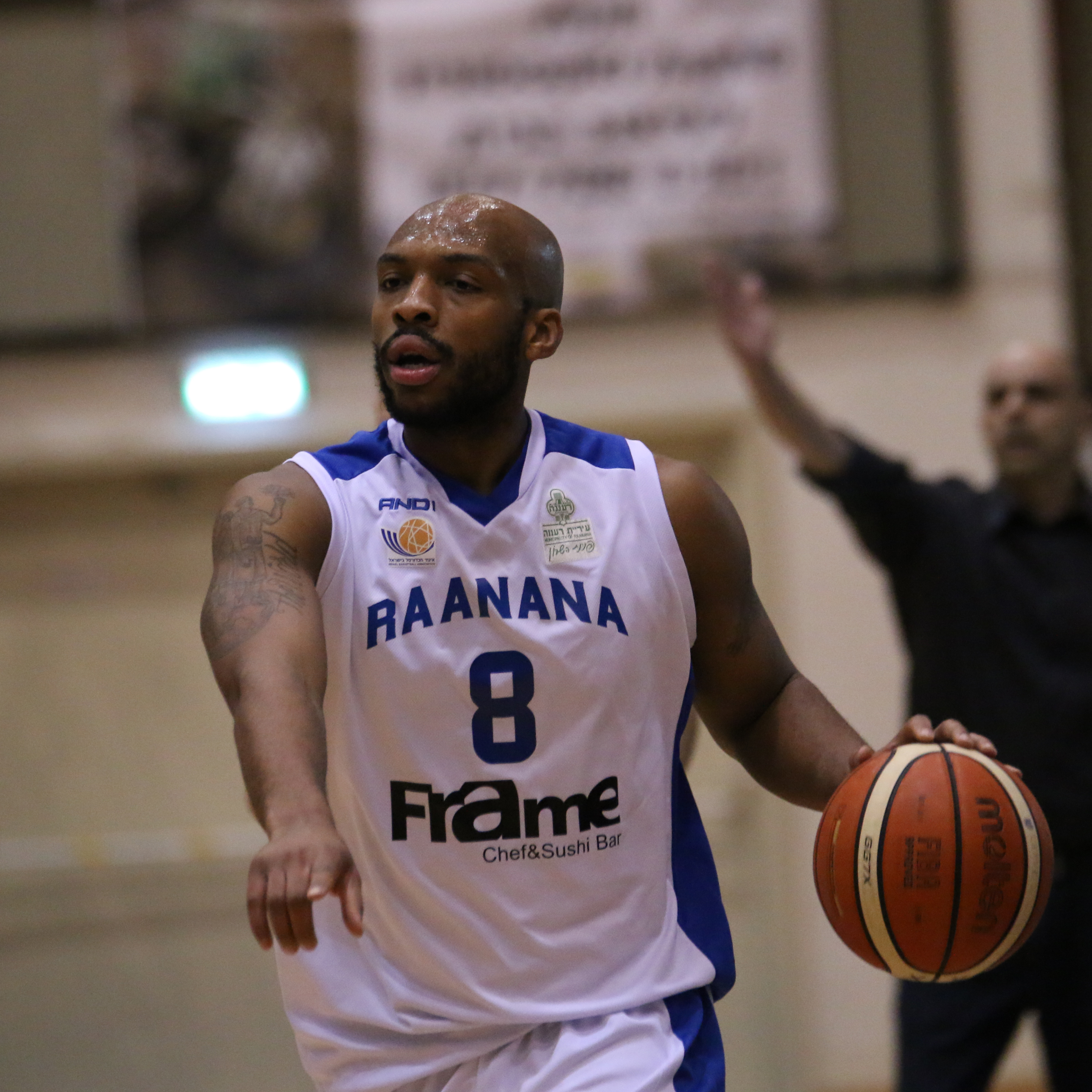 Samme Givens plays for Maccabi Ra'anana, 2017